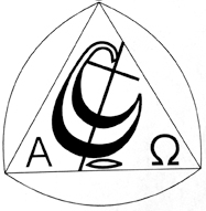 Brothers of christ